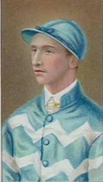 An illustration of British champion jockey Elijah Wheatley taken from an Ogden's cigarette card of 1906